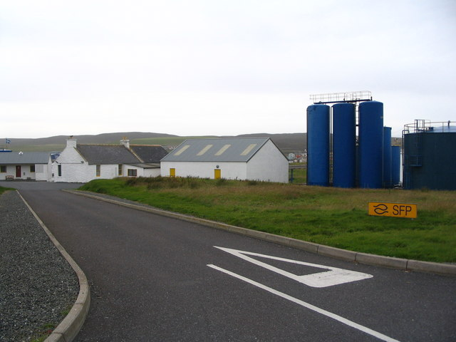 Fishmeal factory at Heogan, Bressay Industrial tanks are also just visible across Bressay Sound. "Heavy" industry is clustered at the north extremity of Bressay Sound and are well hidden from the normal "tourist" sites in Lerwick.